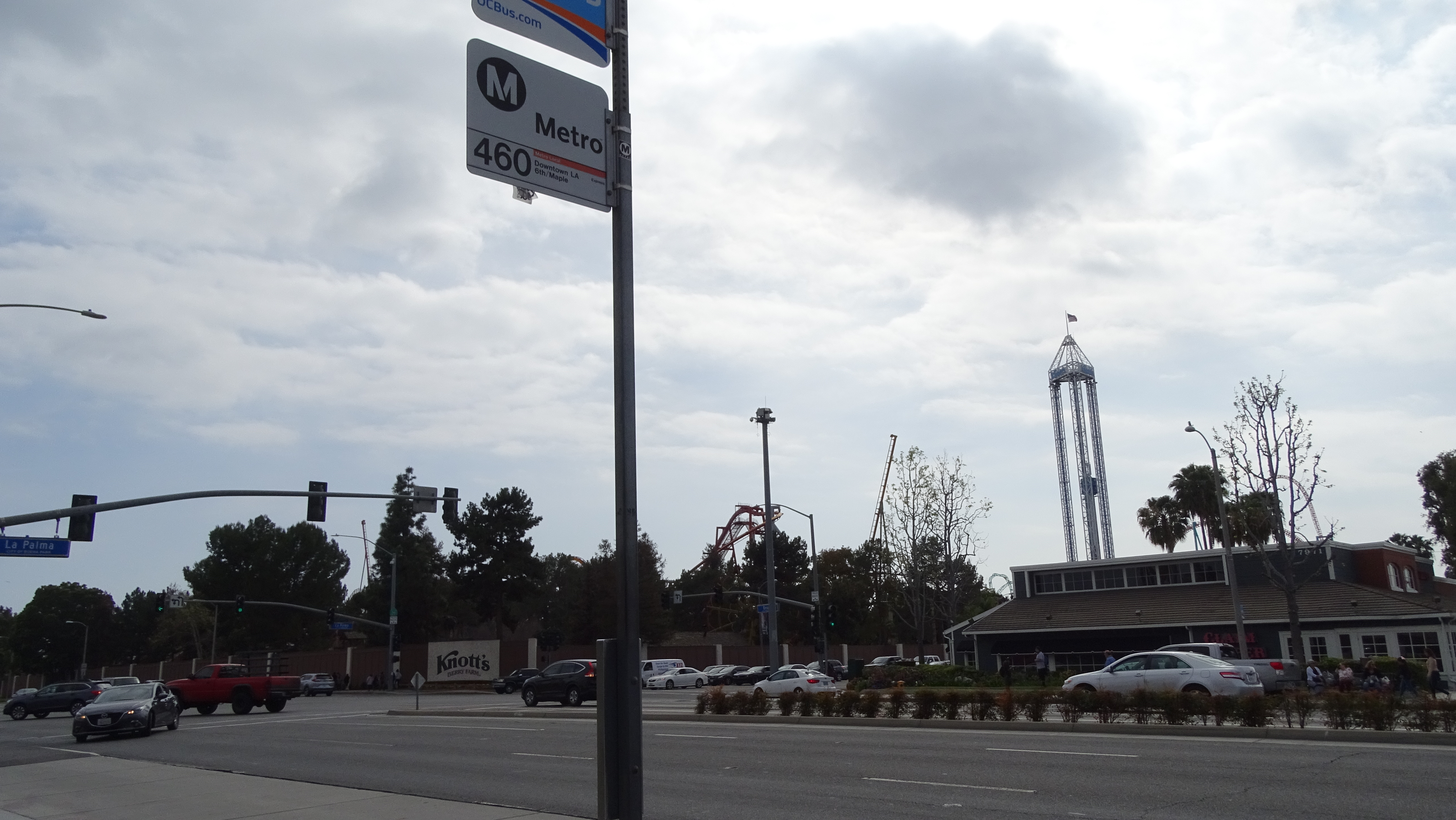 Metro Express Line 460 at Knotts Berry Farm